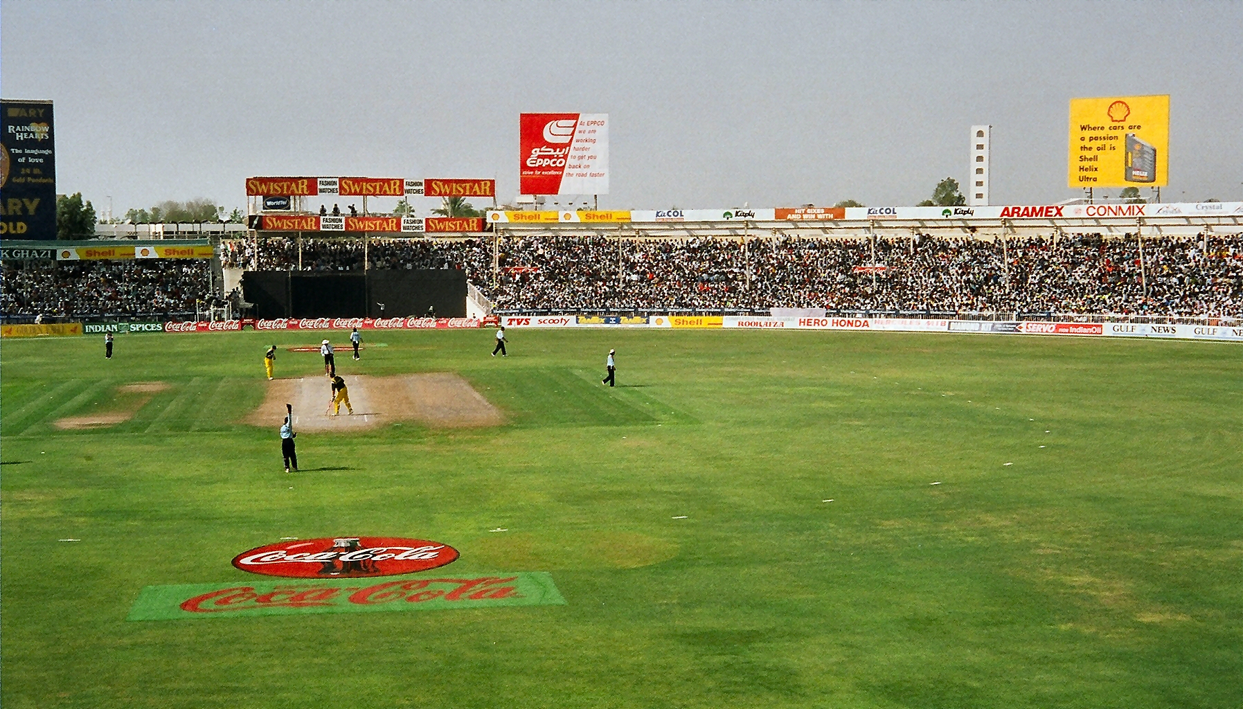 One Day International at Sharjah in 1998 (Australia v India) Photo by Paddy Briggs